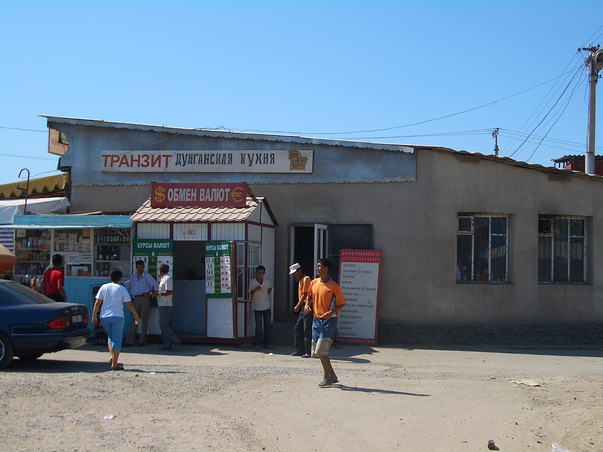 A scene in Dordoy Bazaar, Bishkek. The building in the background houses a small restaurant called "Tranzit", offering "Dungan cuisine". In front of it, a currency exchange kiosk, quoting rates for EUR, USD, RUR, Kazakh tenge and Uzbek sum.